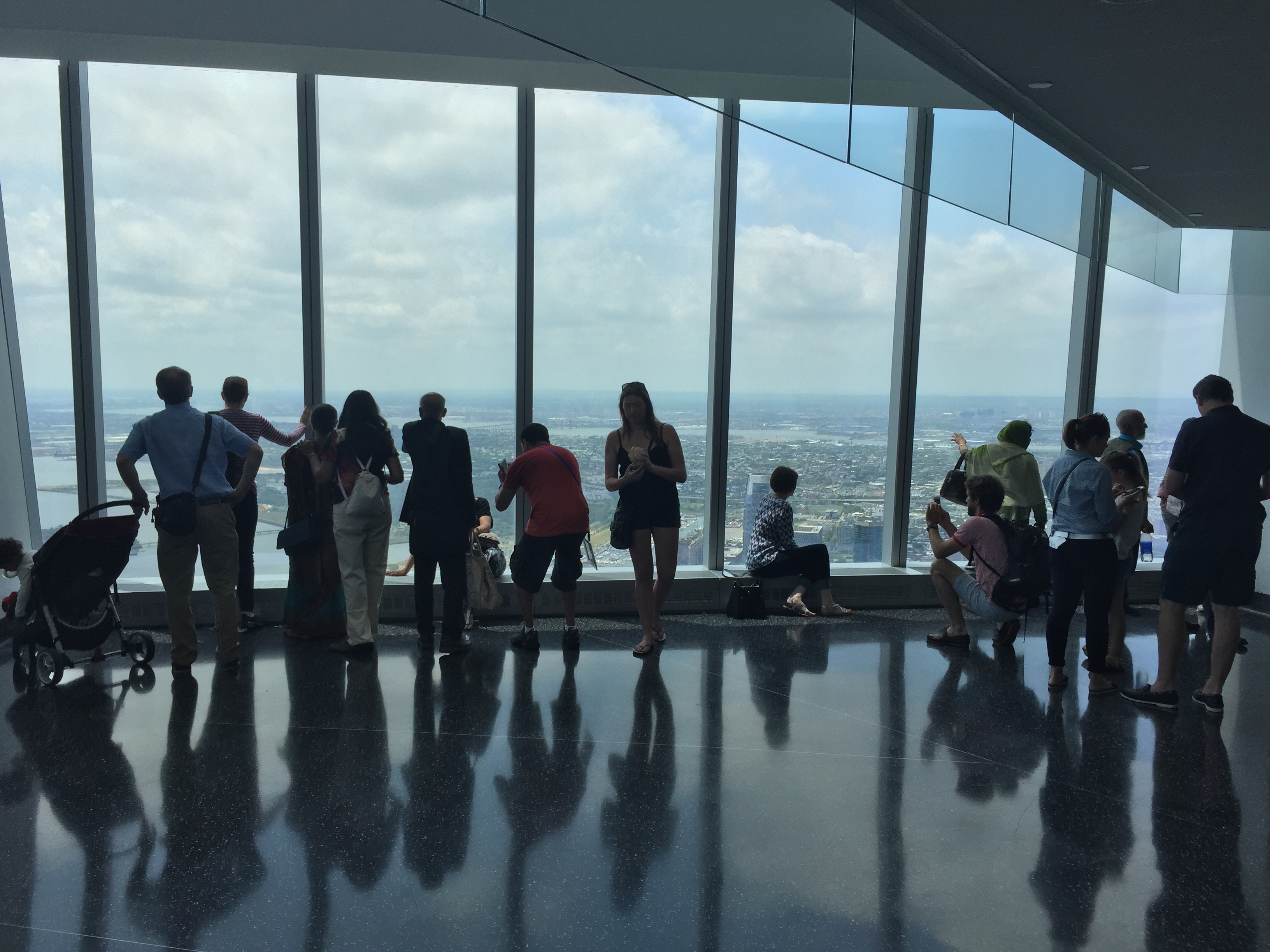 Looking toward New Jersey from One World Observatory atop One World Trade Center in Manhattan, New York.